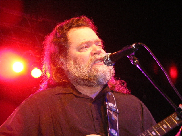 Roky Erickson performing at the Austin Music Awards (2008). Photo by Ron Baker.